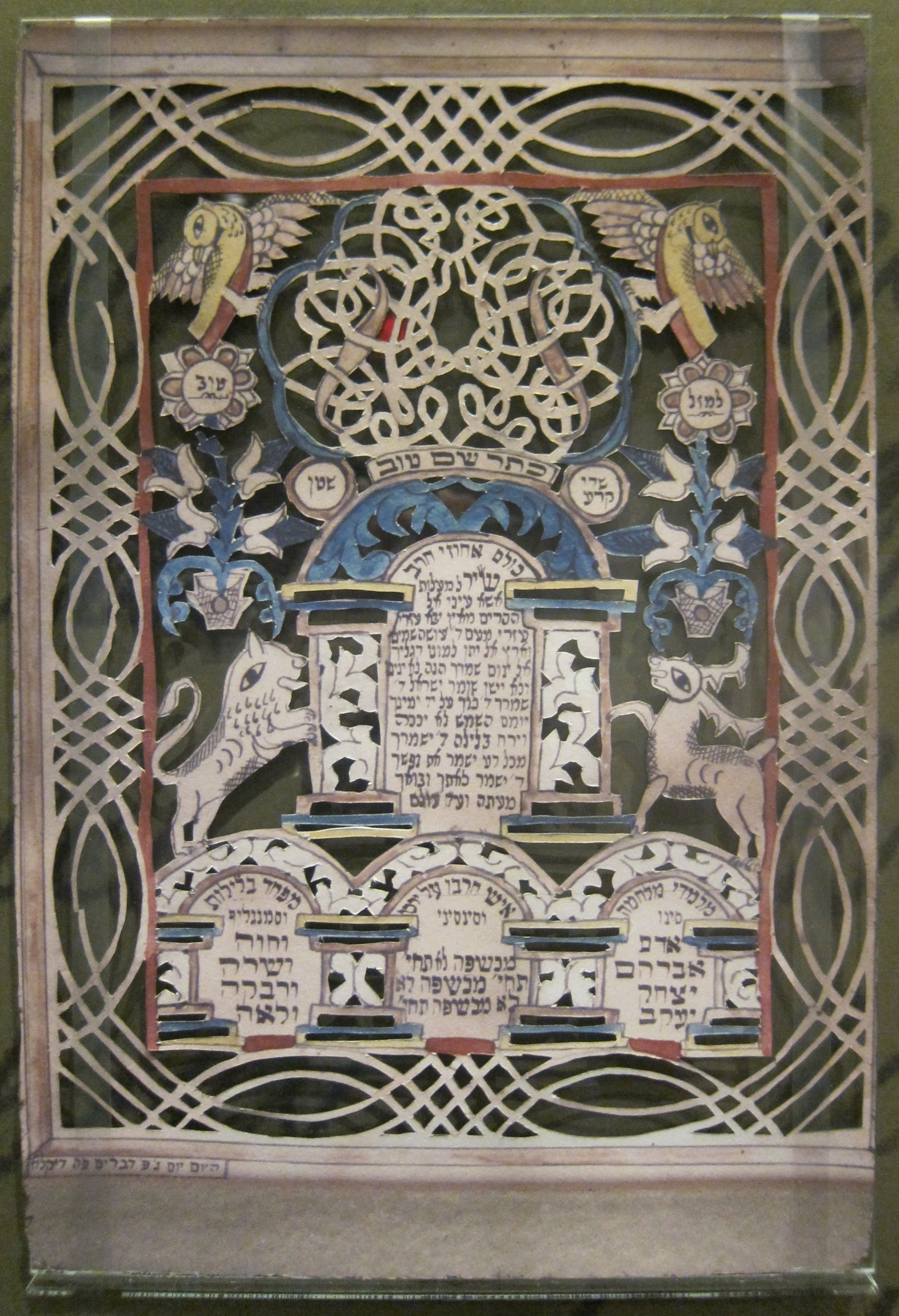 Amulet for mother and newborn child from Galicia (Eastern Europe), by the trained scribe David Elias Krieger, c. 1900, Yeshiva University Museum, New York